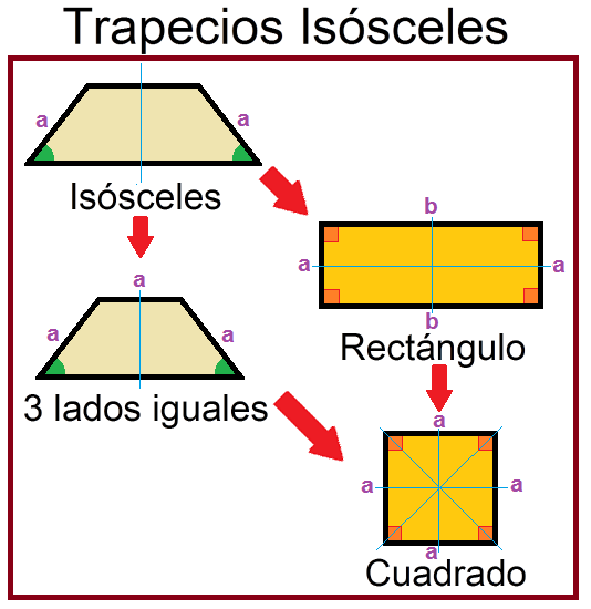 Isosceles trapezoid